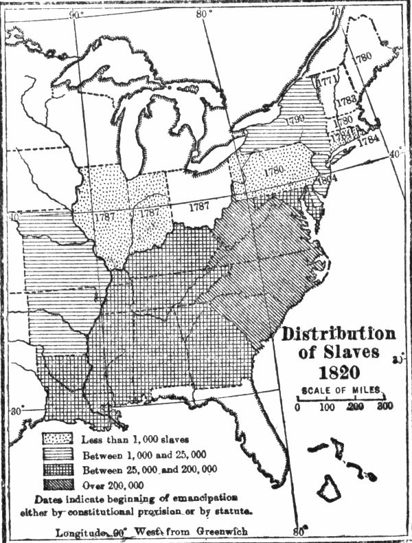 USA distribution of slaves 1820